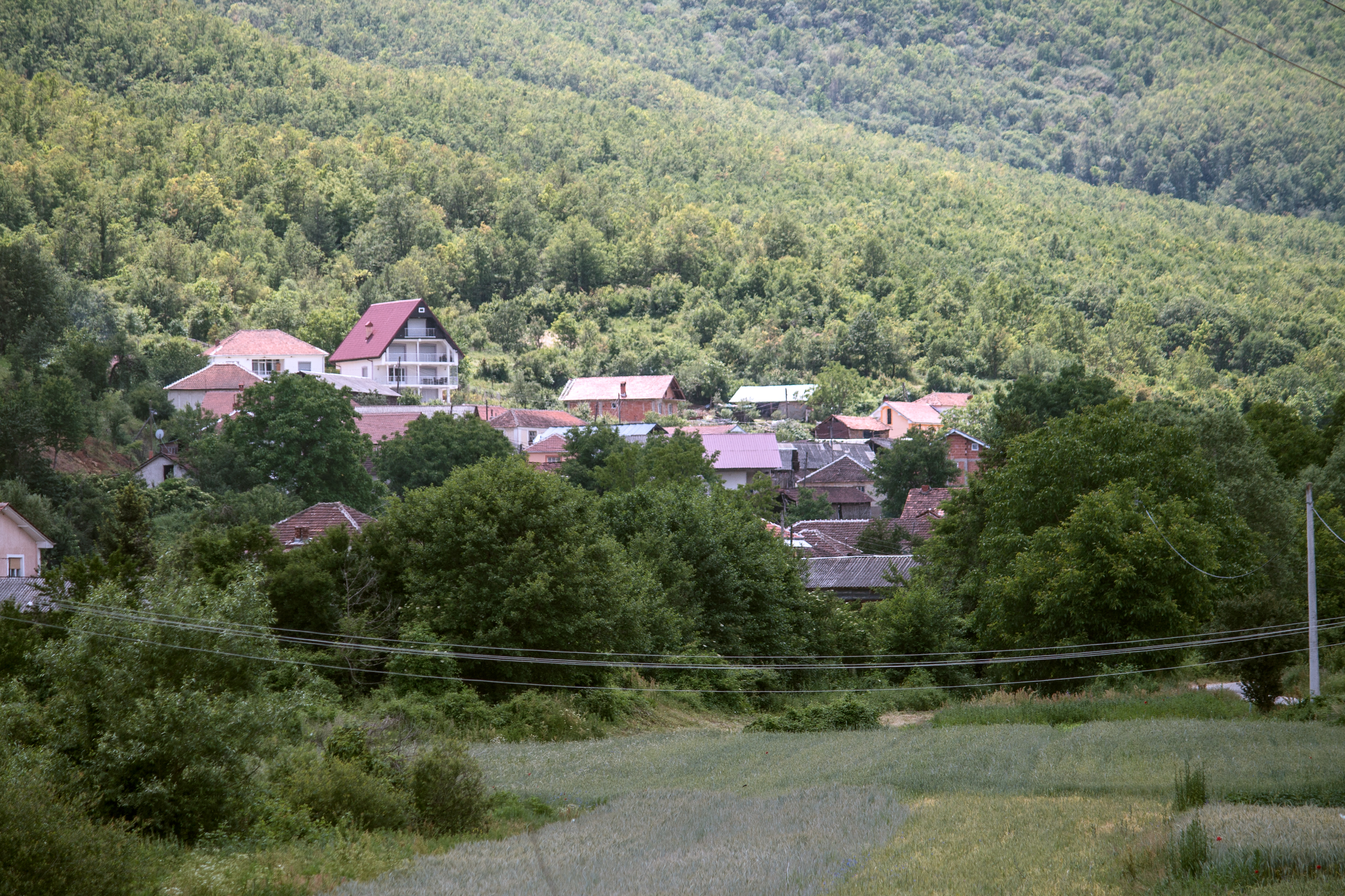 View of the village Obednik